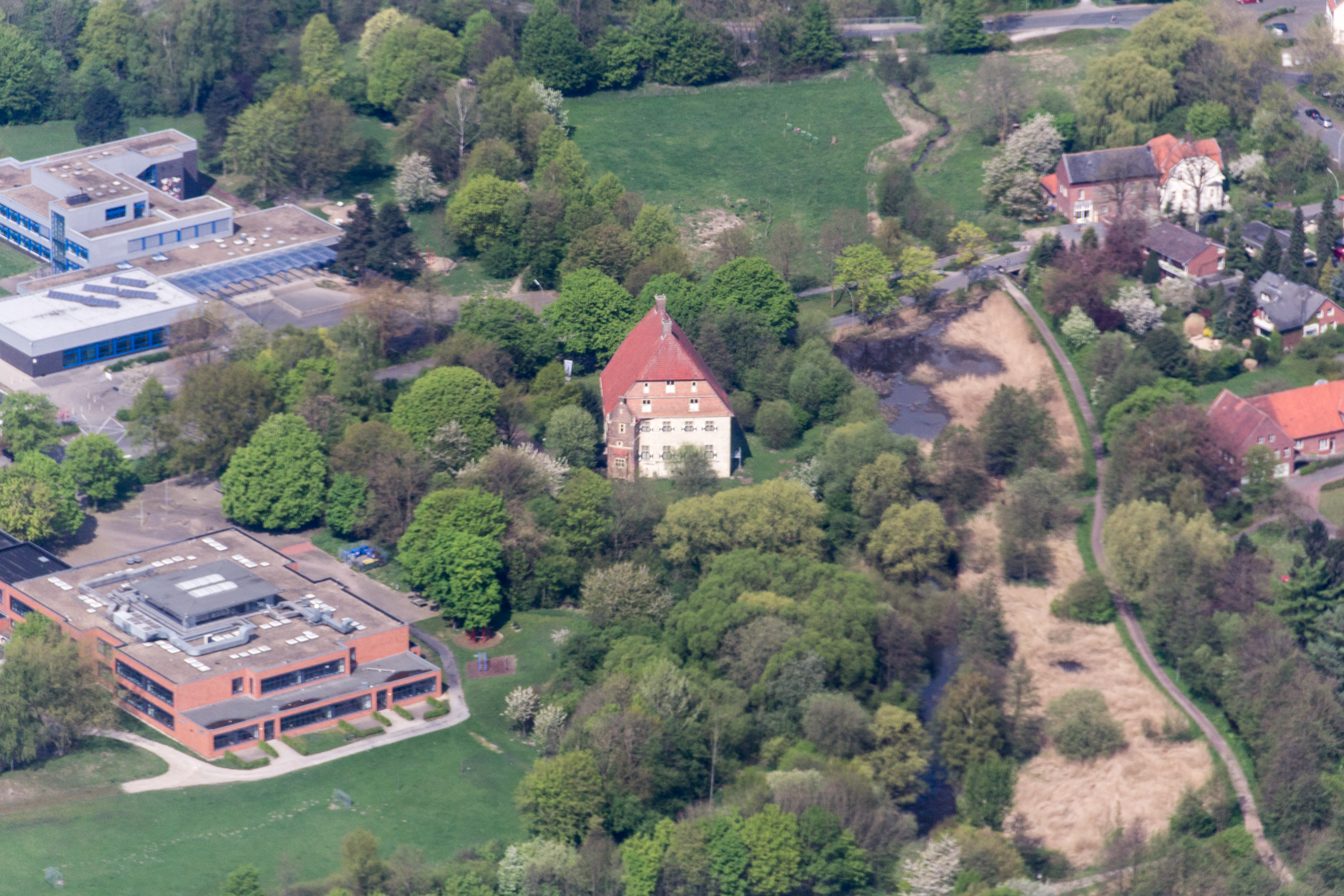 Billerbeck, North Rhine-Westphalia, Germany